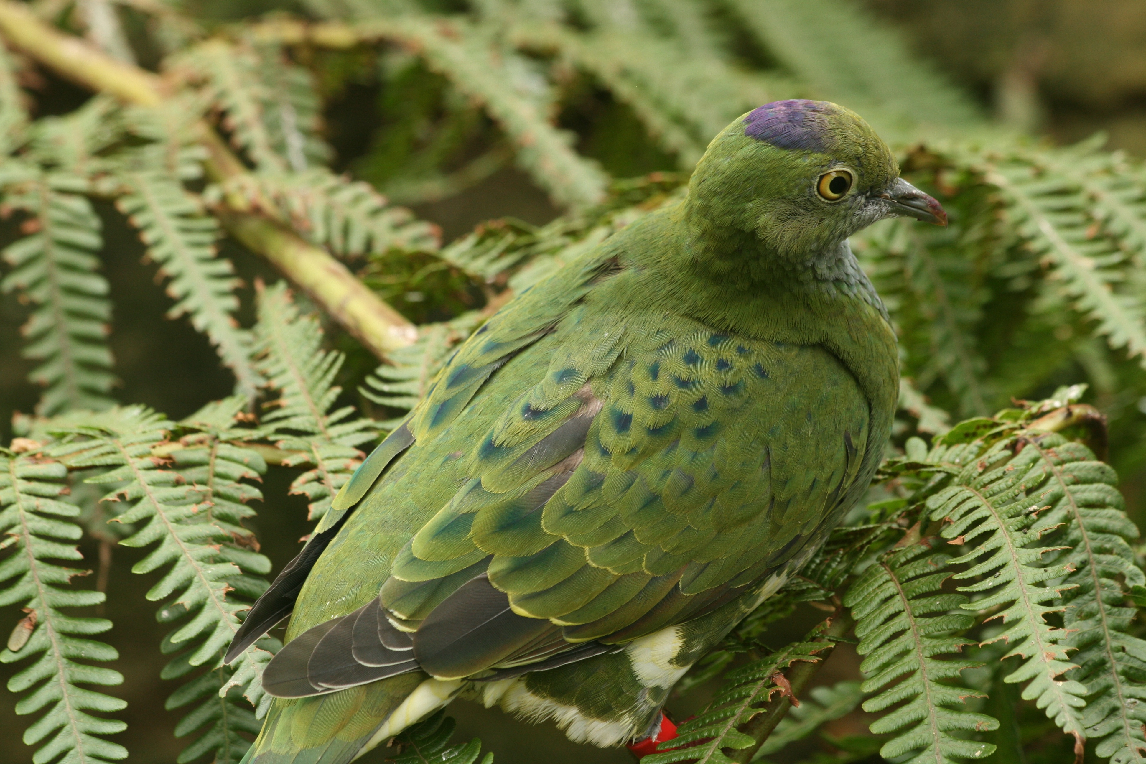 A female Superb Fruit Dove (Ptilinopus superbus), also known as the Purple-crowned Fruit Dove at Taranga Zoo, Sydney, Australia.